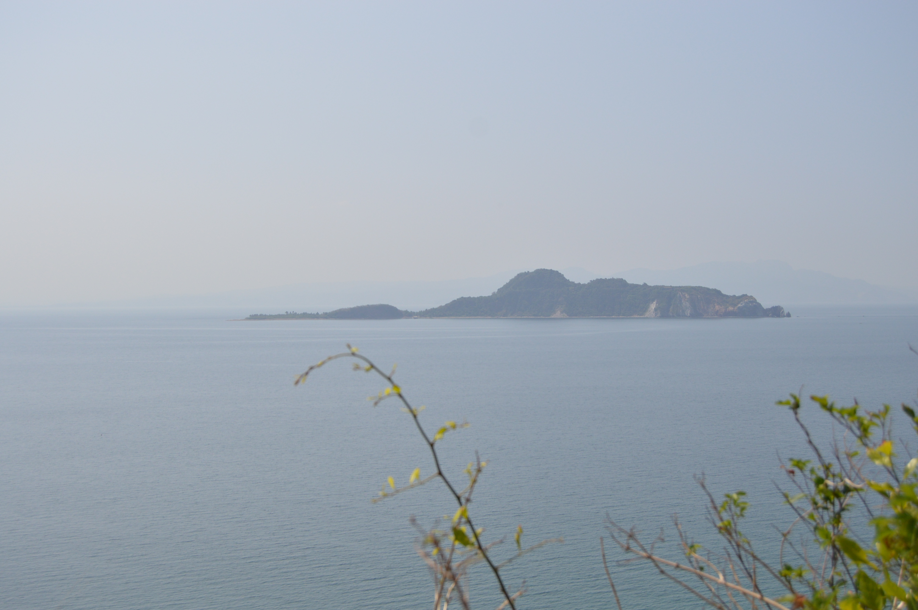 Caballa Island in March 2019, as seen from the tailside of Corregidor Island.